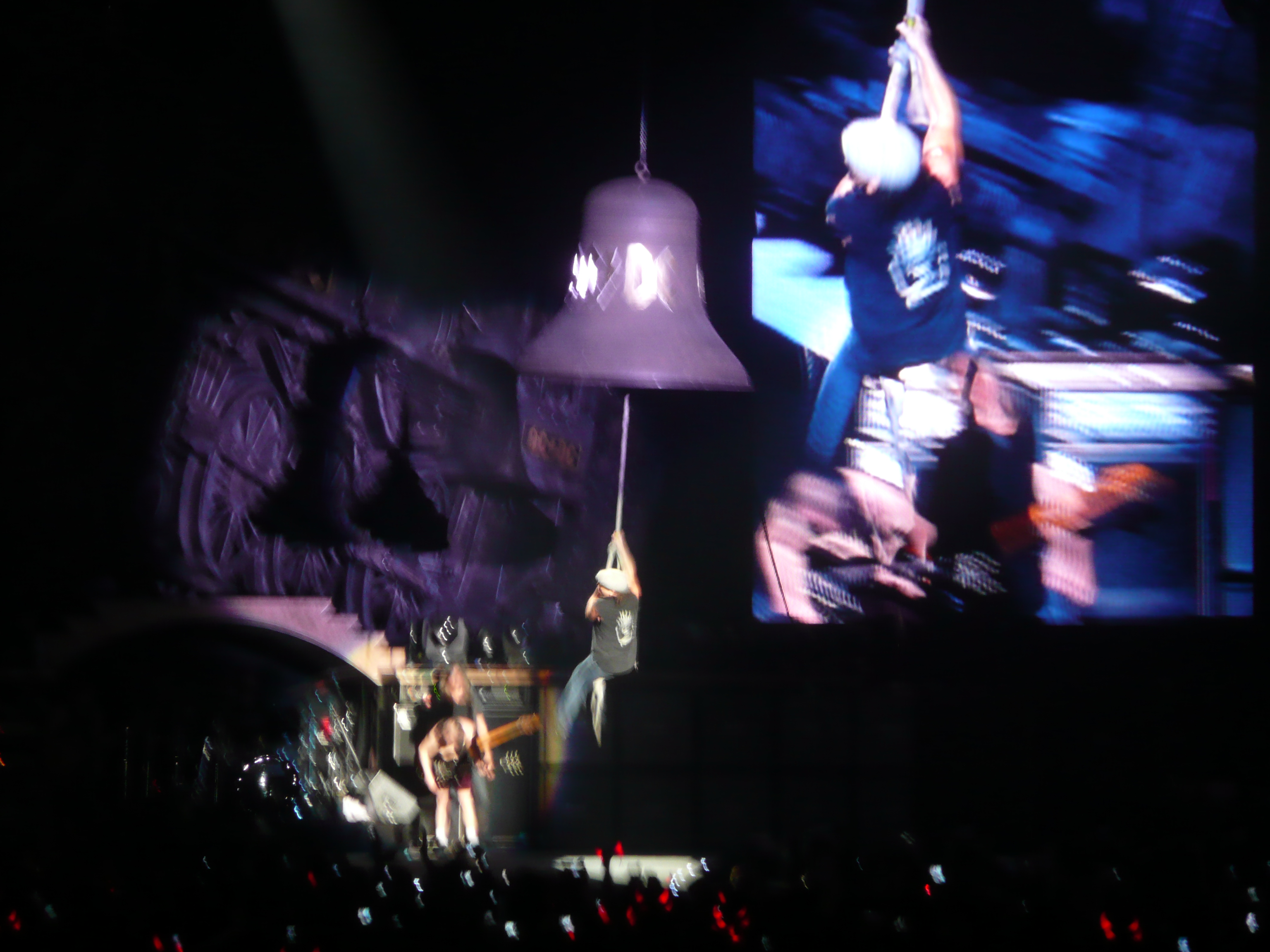 AC/DC plays the song "Hells Bells" at the Rogers Centre